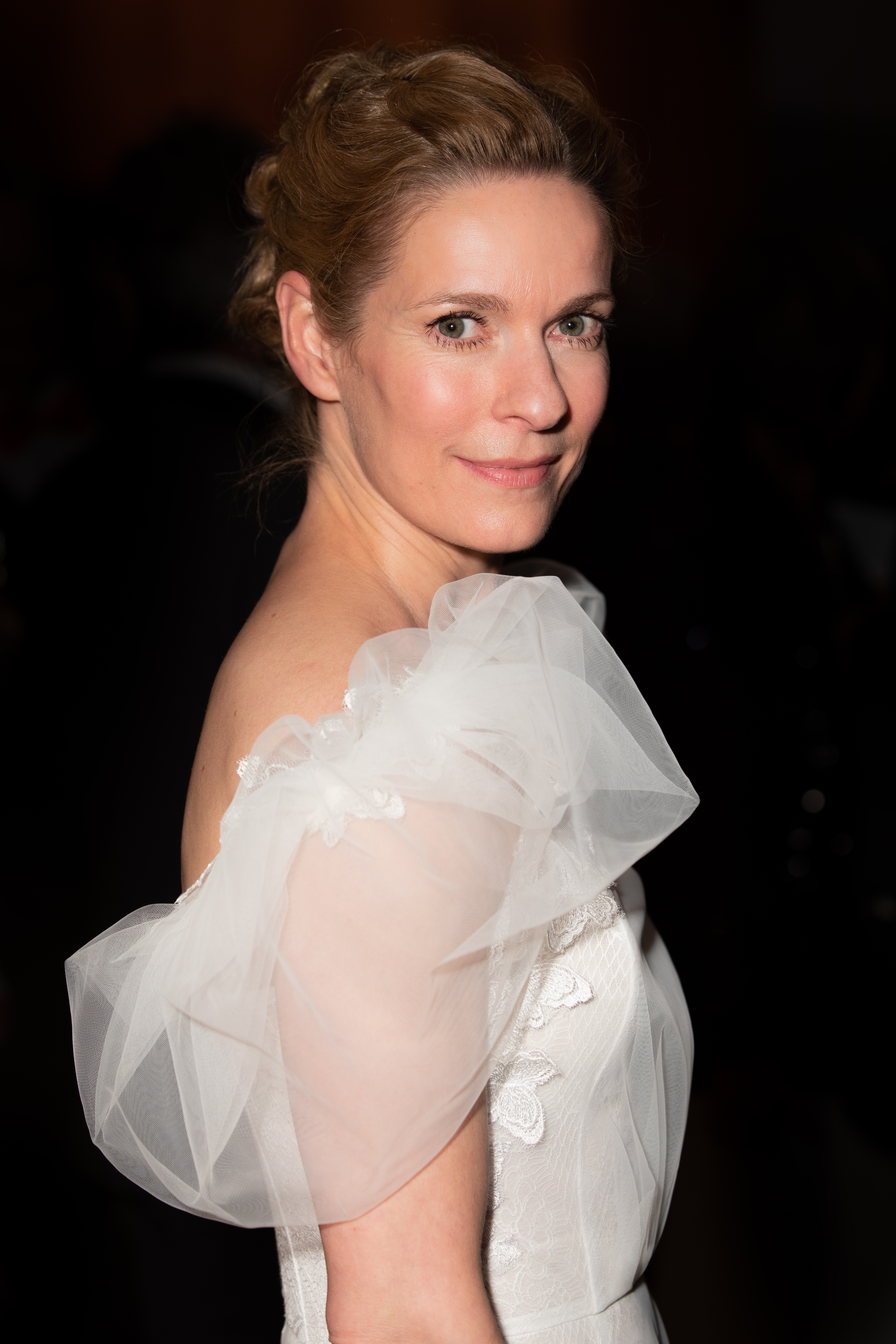 at the party of the German Film Award 2019 at the Palais am Funkturm, Berlin.